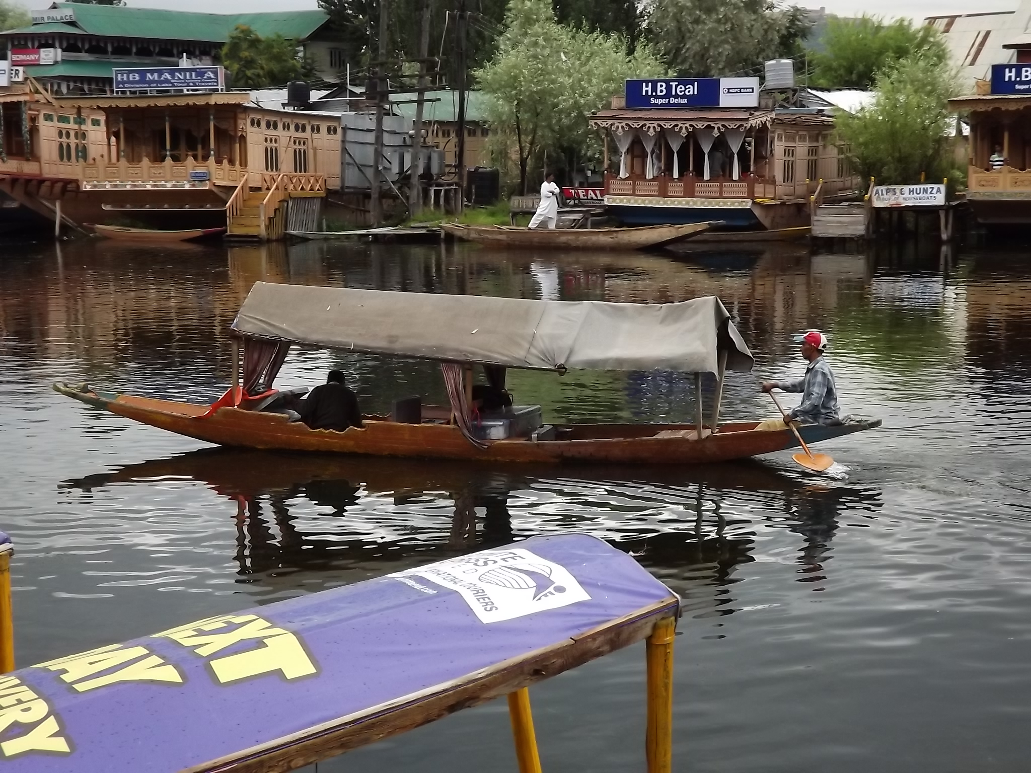 Amarnath Yatra